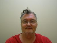 Victor Ronald Salva